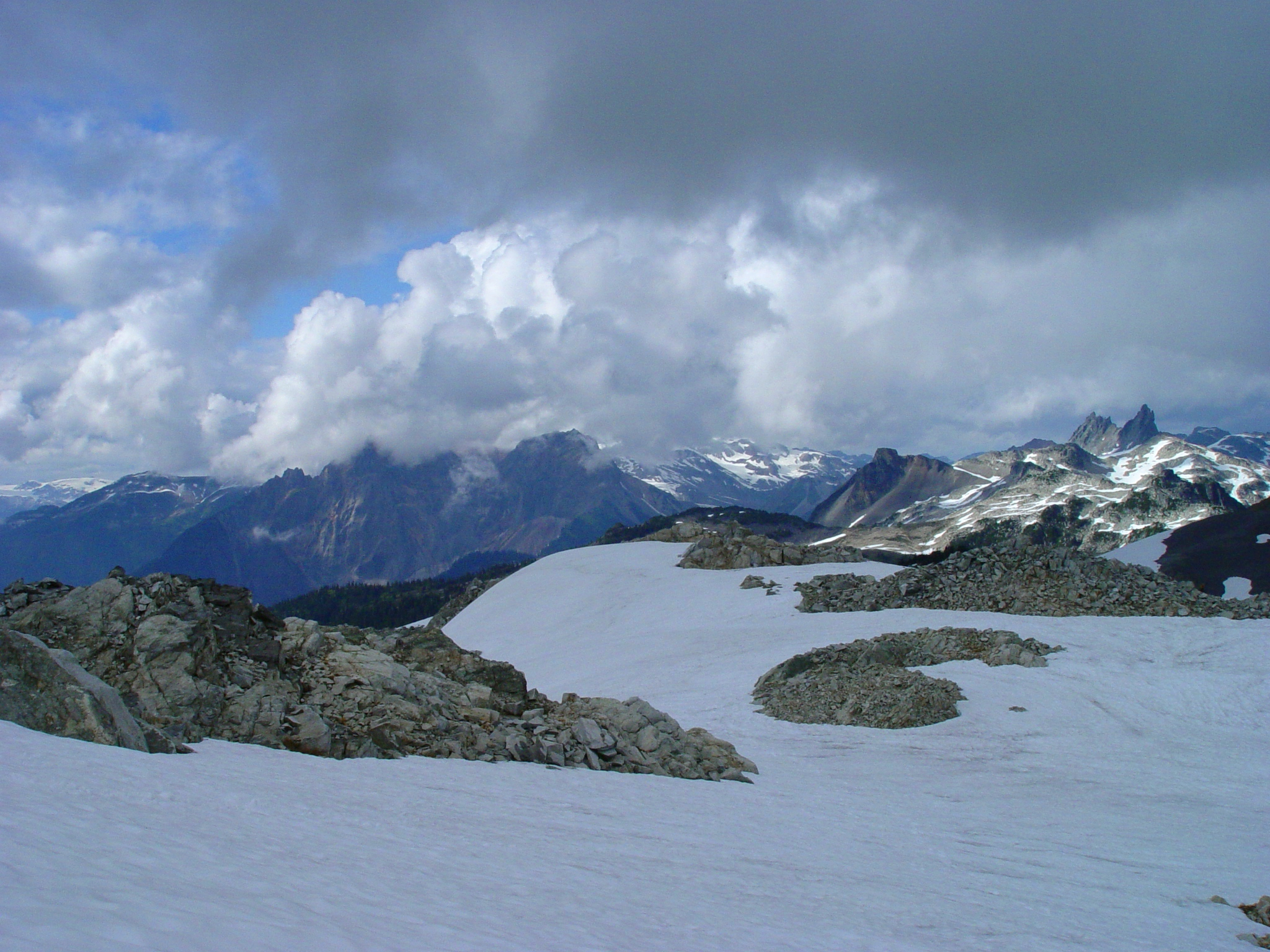 Pyroclastic Peak is hidden in the clouds on the left, Mount Fee is on the right edge.Looking North